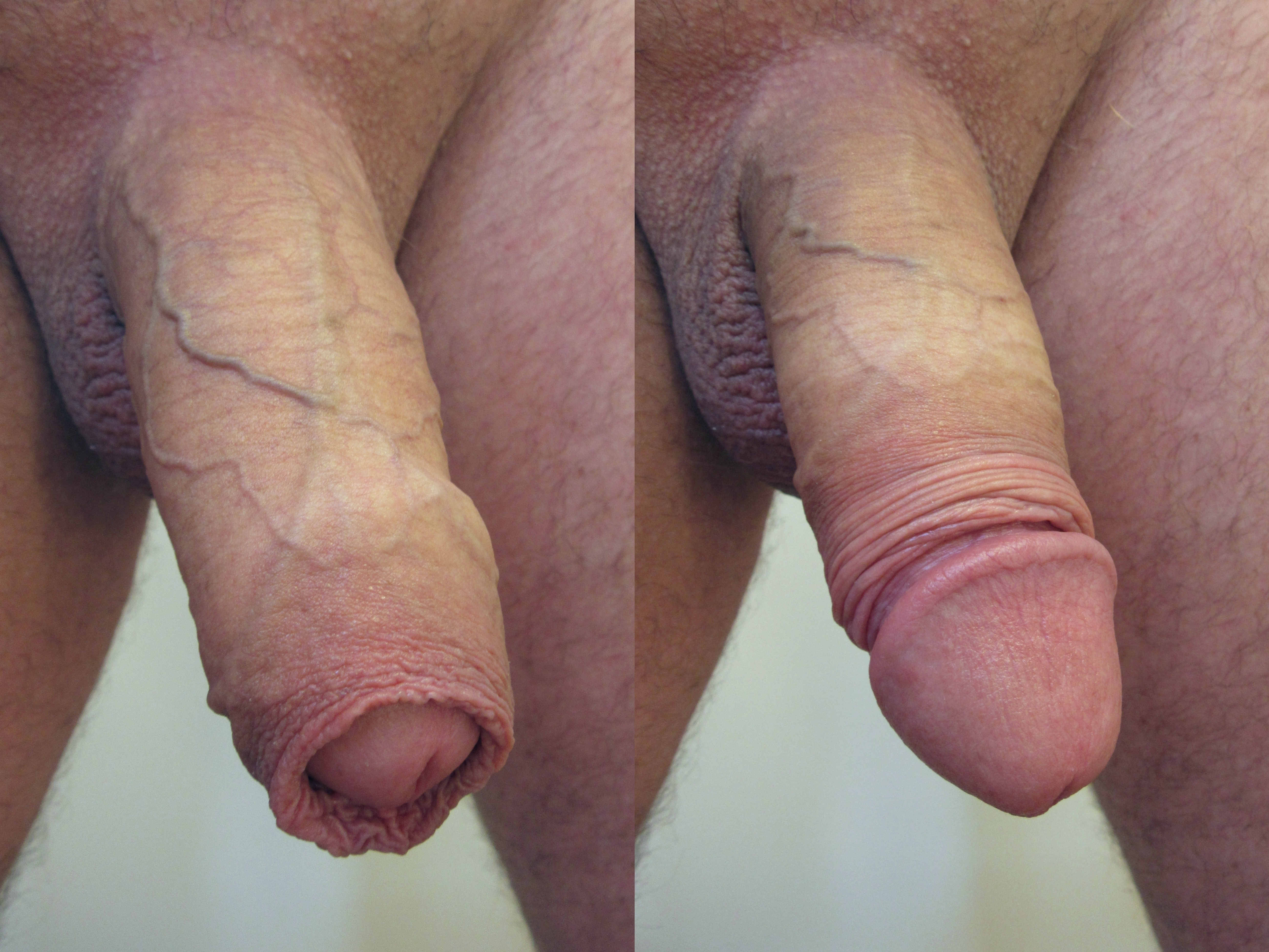 Retraction of human foreskin